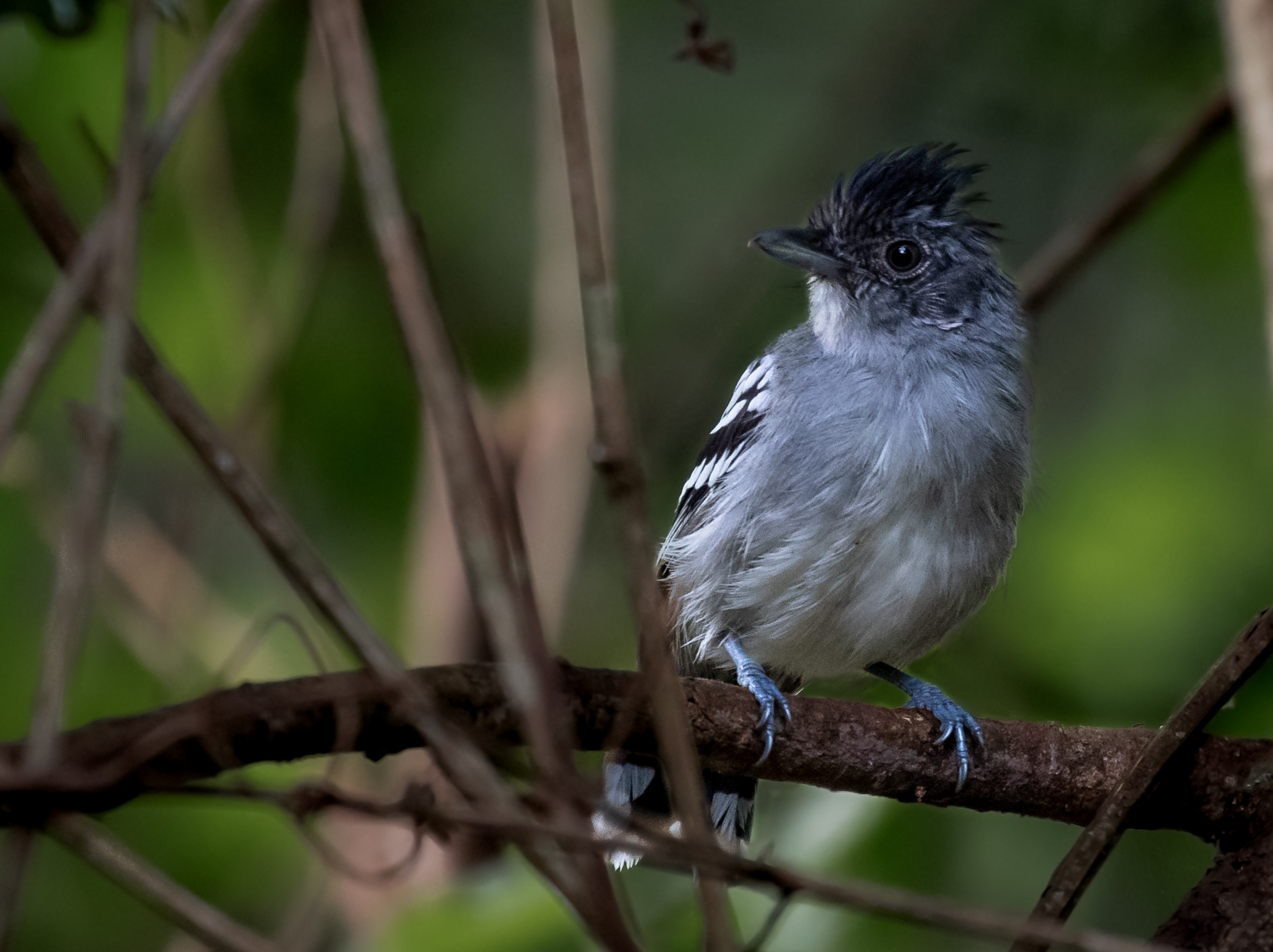 Bolivian slaty-antshrike, male; Ladário, Mato Grosso do Sul, Brazil